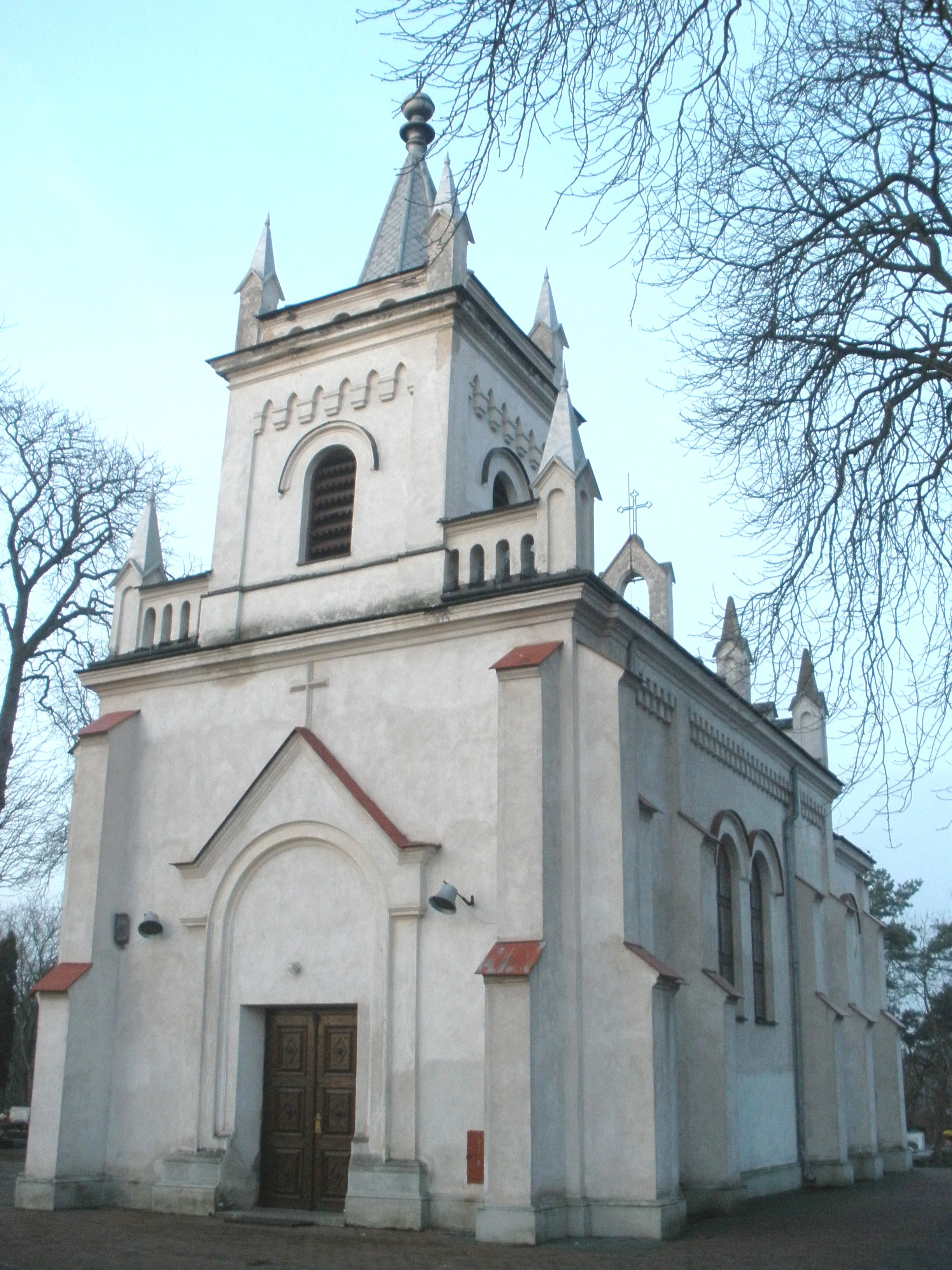 St. Jacob Chapel in Gostynin. Built in 1886.